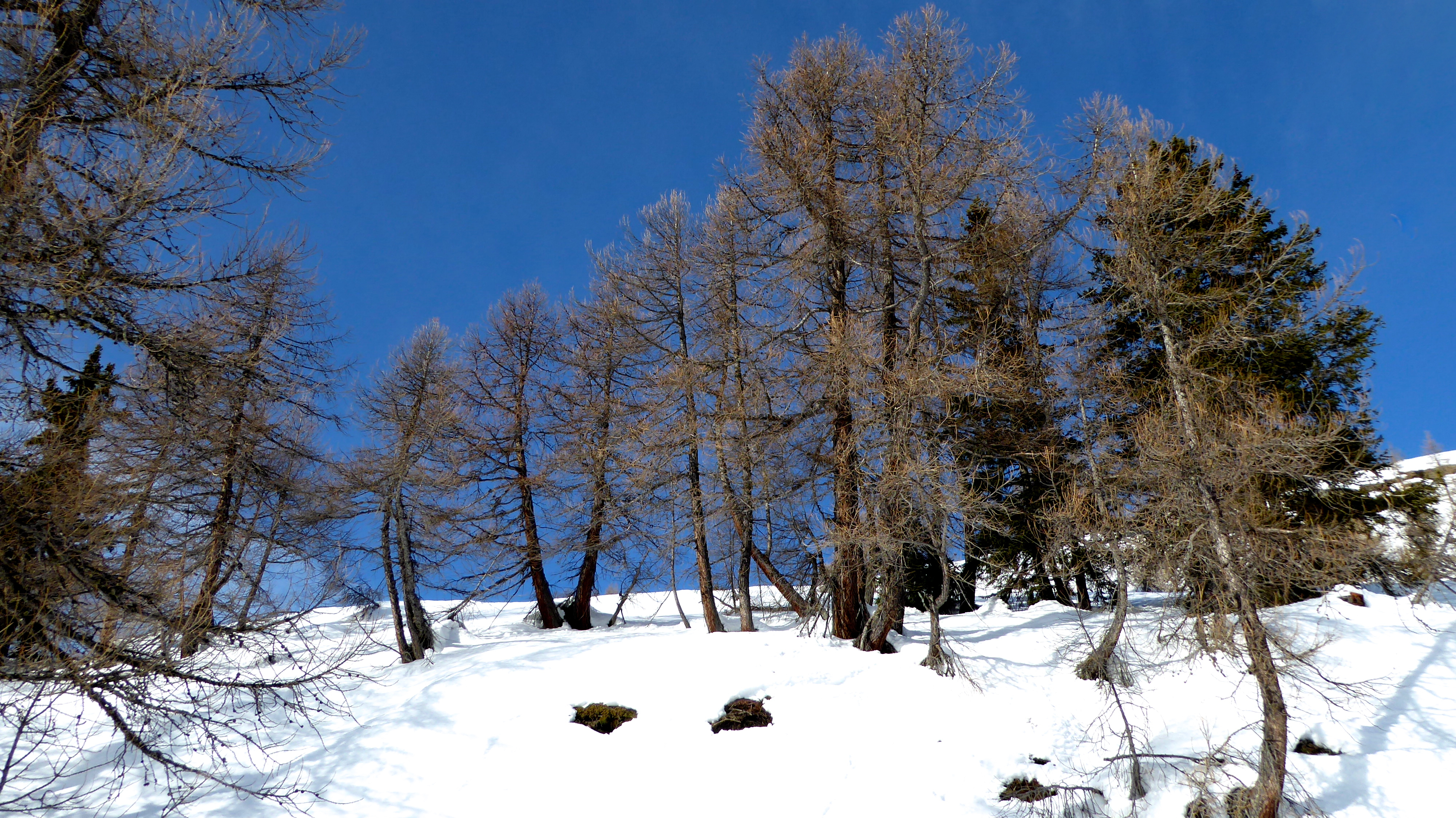 pictured in Crans Montana, Switzerland